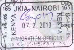 Kenya entry passport stamp